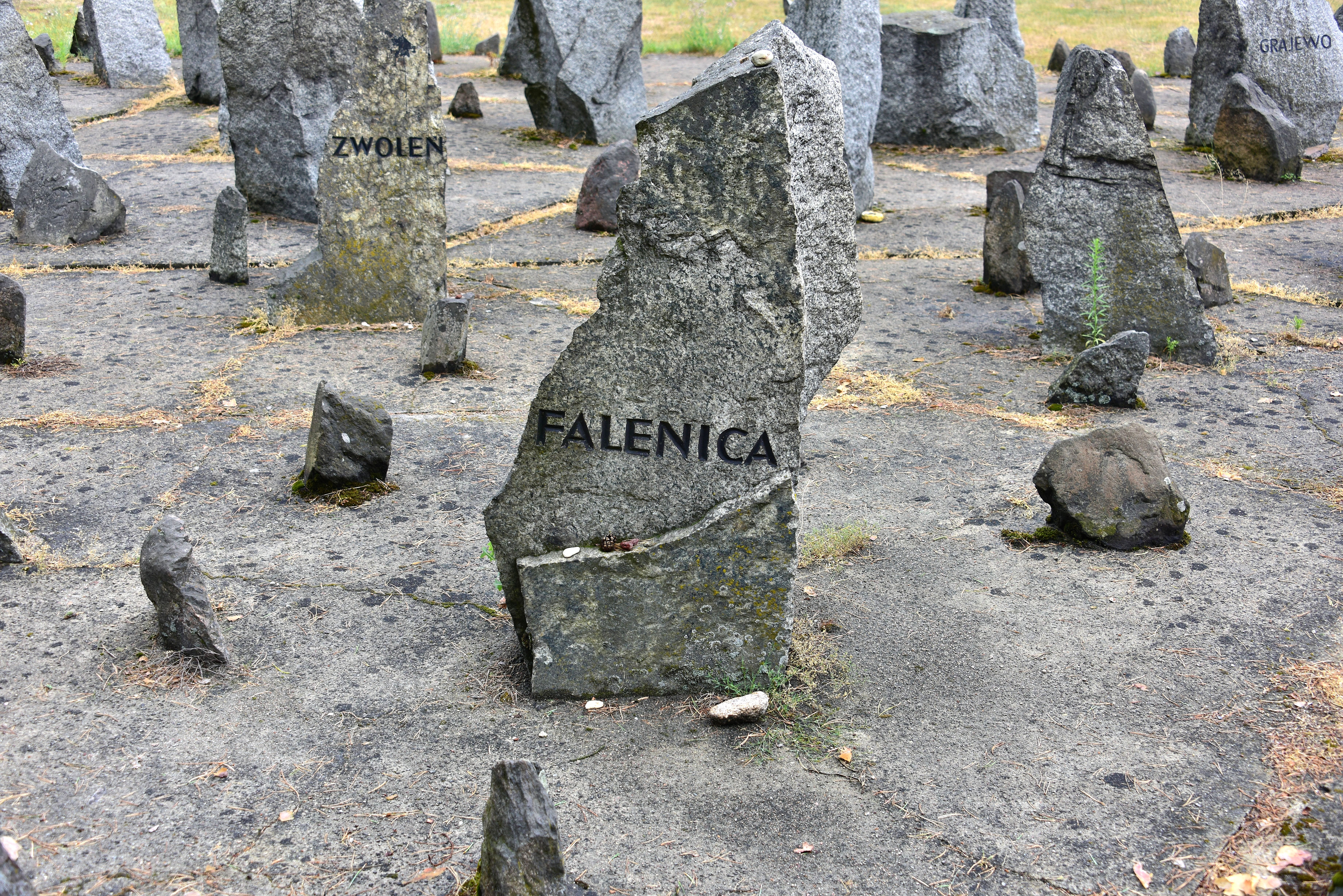 Treblinka death camp memorial. A stone commemorating the murdered Jews from Falenica (currently a part of Warsaw)